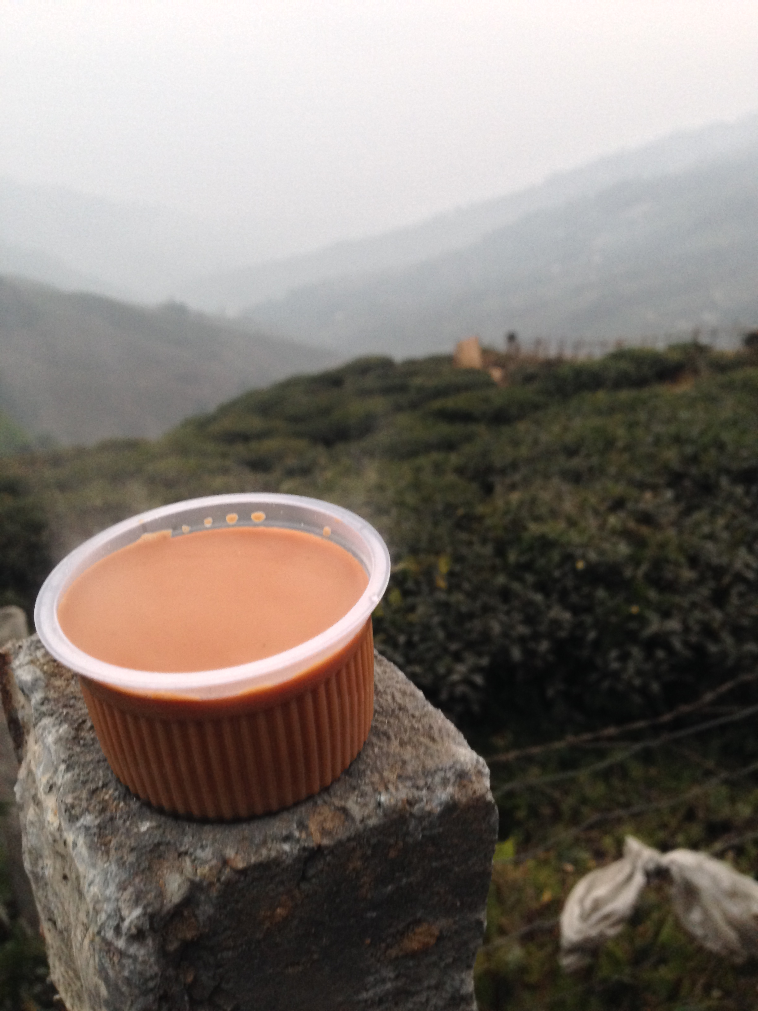 Priceless feeling of having a cup of Darjeeling tea on Darjeeling tea fields.